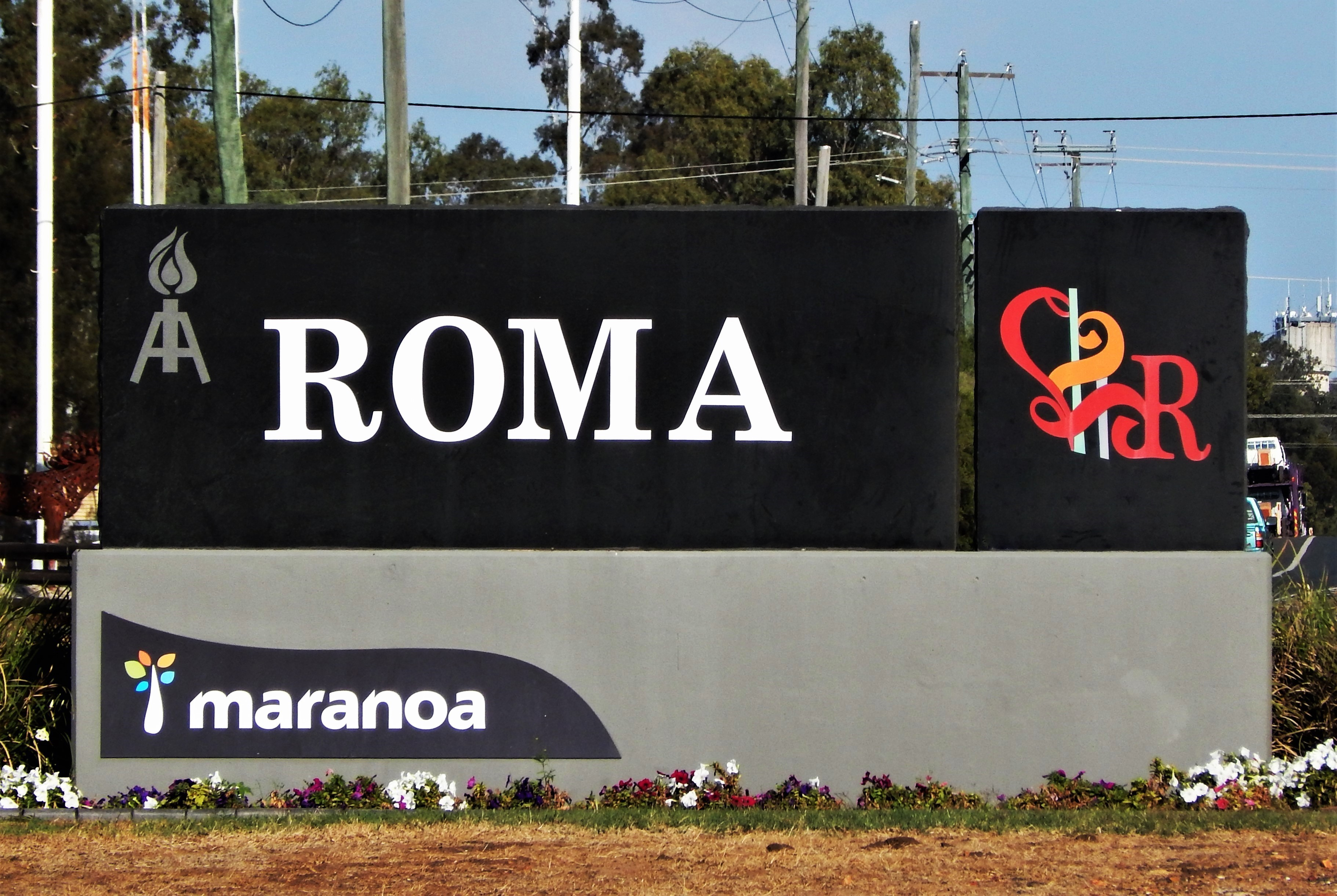 The Roma sign, located at the eastern entrance to the town of Roma, Queensland